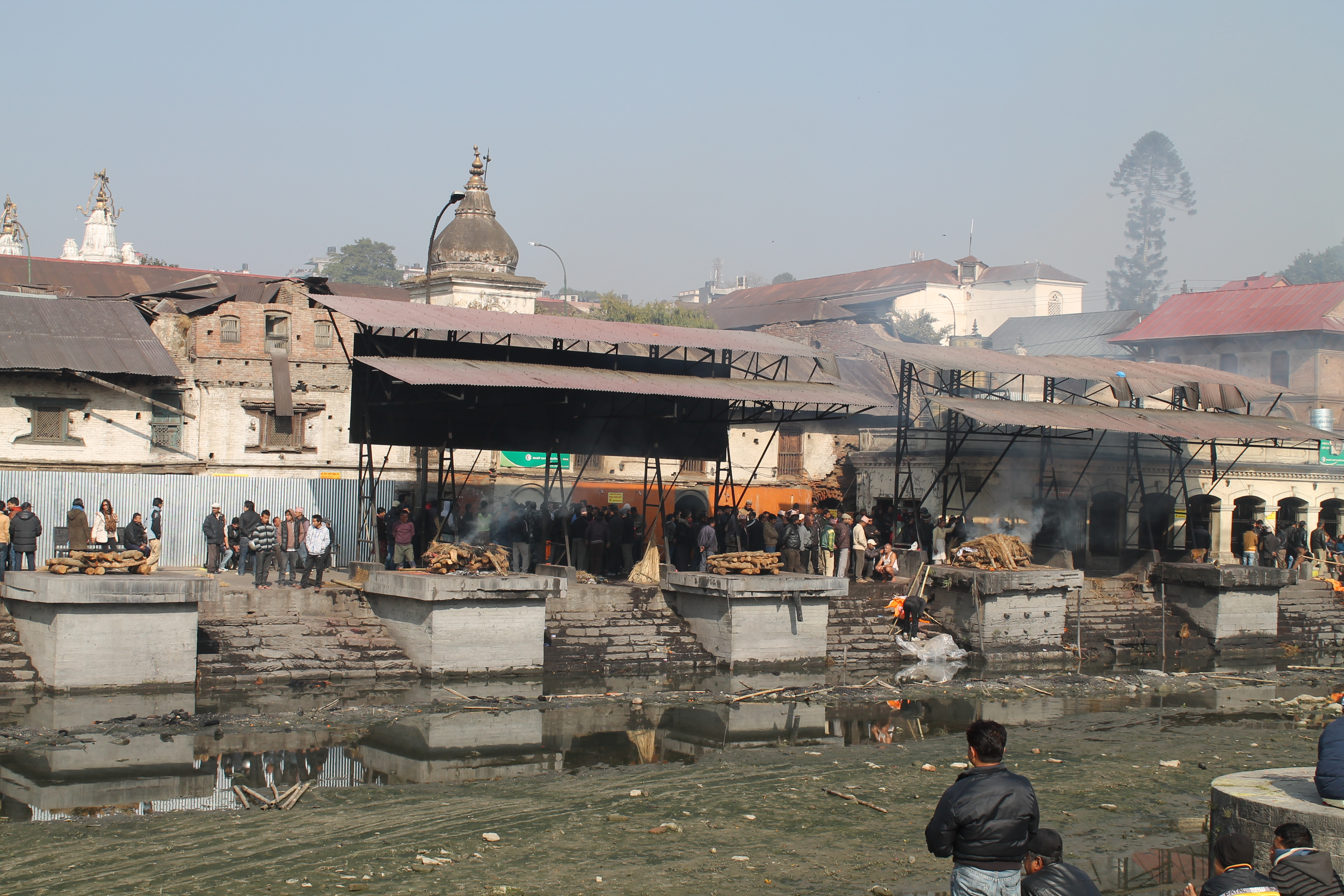 Cremation rituals at the temple of Pashupatinath in Kathmandu